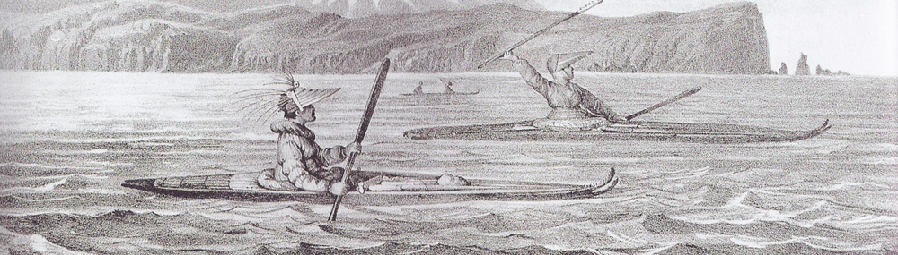 Unalashka Natives with their Canoes, 1827 – F. H. von Kittlitz in Litke's Atlas to Voyage